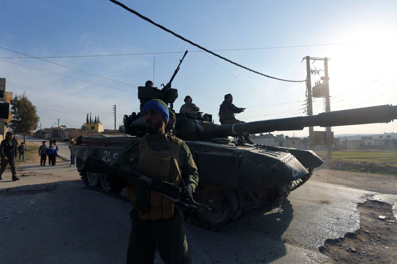 Syrian Army Breaks Several-Year-Long Siege of Nubl and Al-Zahra Towns